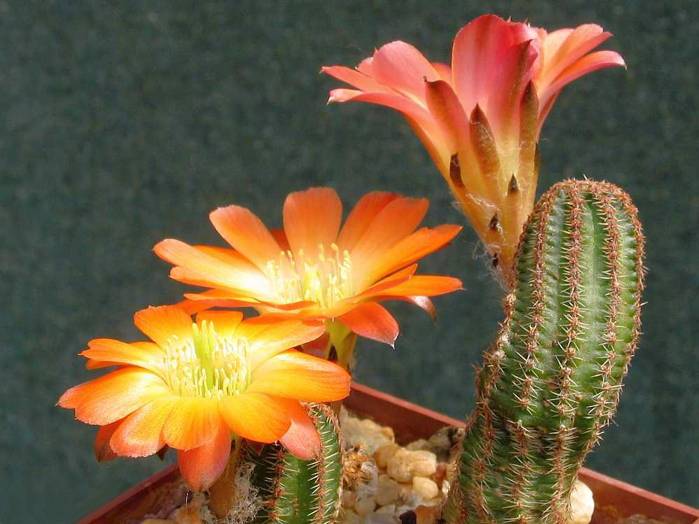 Rebutia torquata Ritter & Buining - cultivated plant (seed marked FR1117) from own collection.